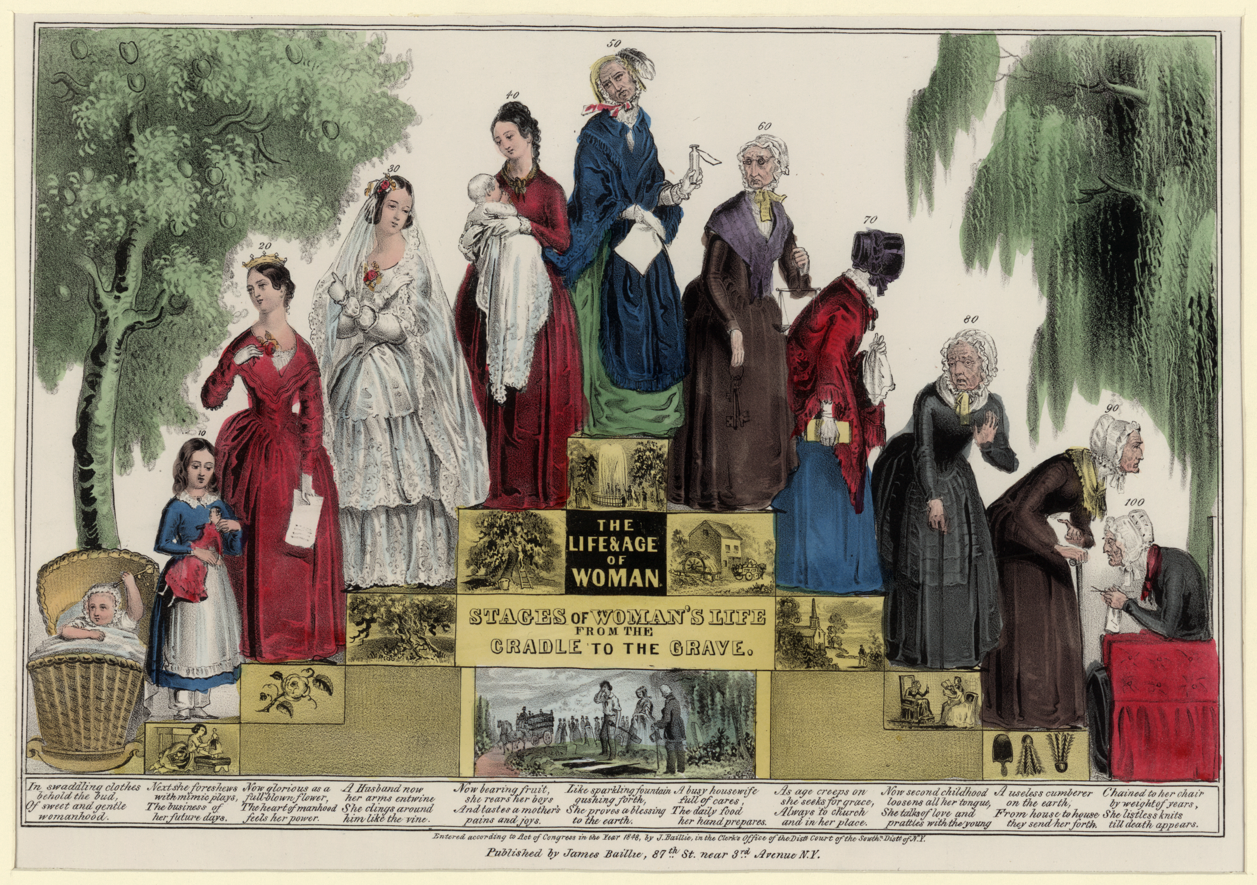 The Life and age of woman, stages of woman's life from the cradle to the grave. New York : James Baillie, c1848.